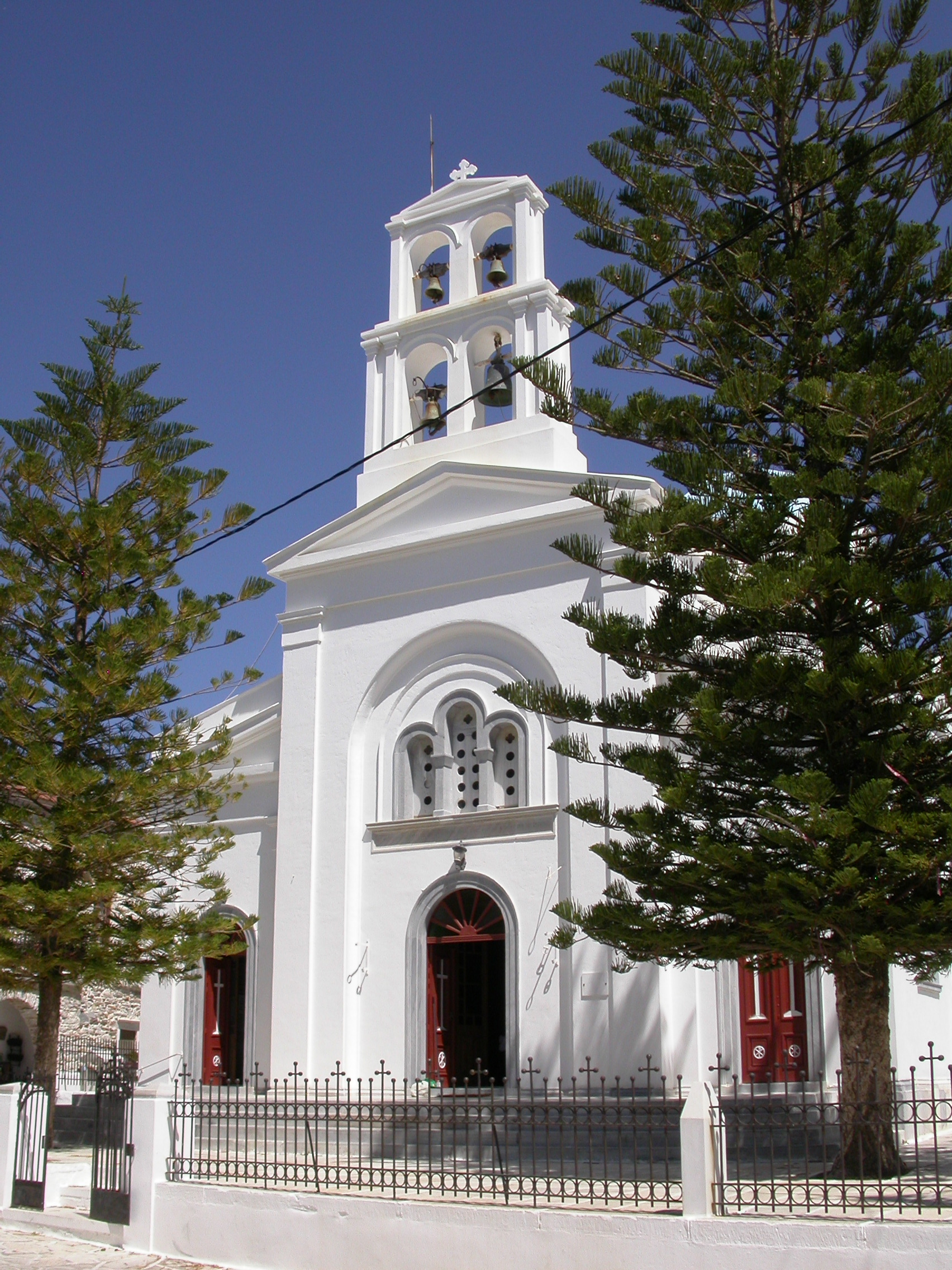 The church of Holy Trinity at Kaloxilos of Naxos, Cyclades, Greece